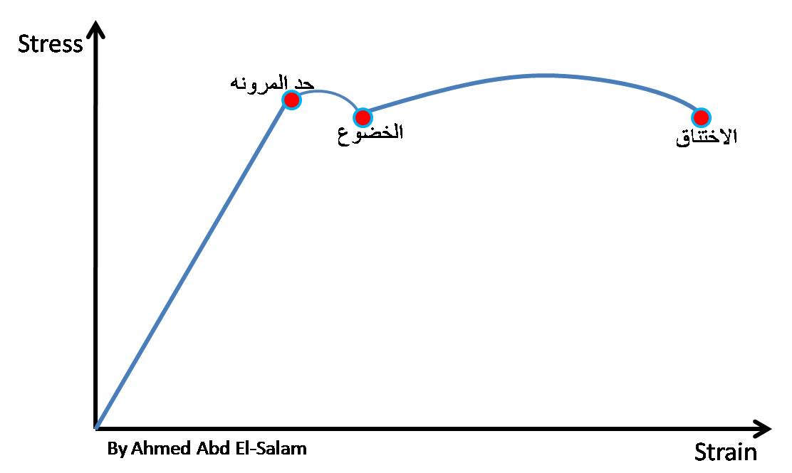 Chart to explain ElAsticity